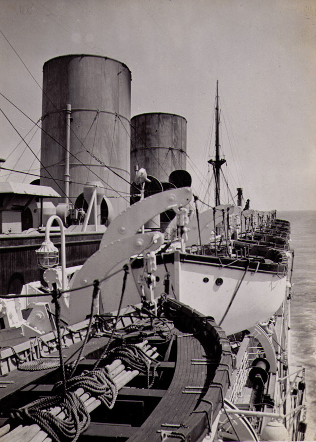 Photo of the lifeboats held by the davits. Taken from the bridge of the P&O cruise liner RMS Strathnaver. This photo is part of a small series from an old b&w album, estimated to be taken in the early 1930s.